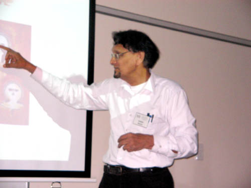 Dr. Ragbir Bhathal, guest speaker at Macarthur Astronomy Forum, May 2010